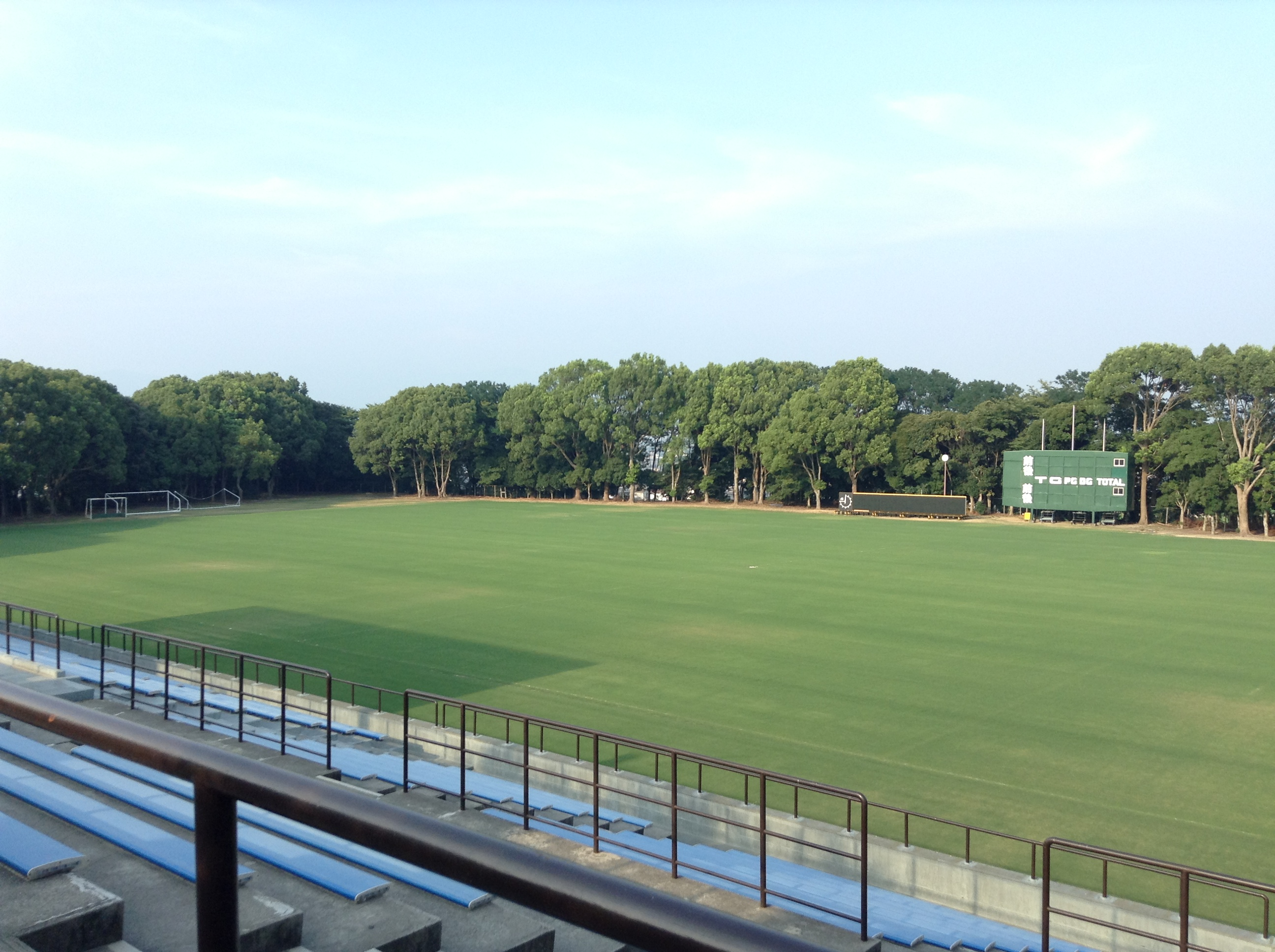 Ball Game Field in Ehime Prefectural Sports Park Complex.